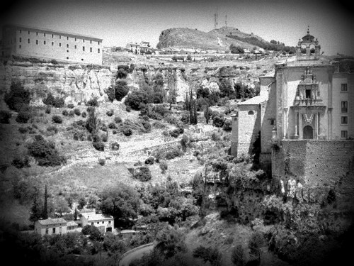 A black and white photo taken in Cuenca Spain